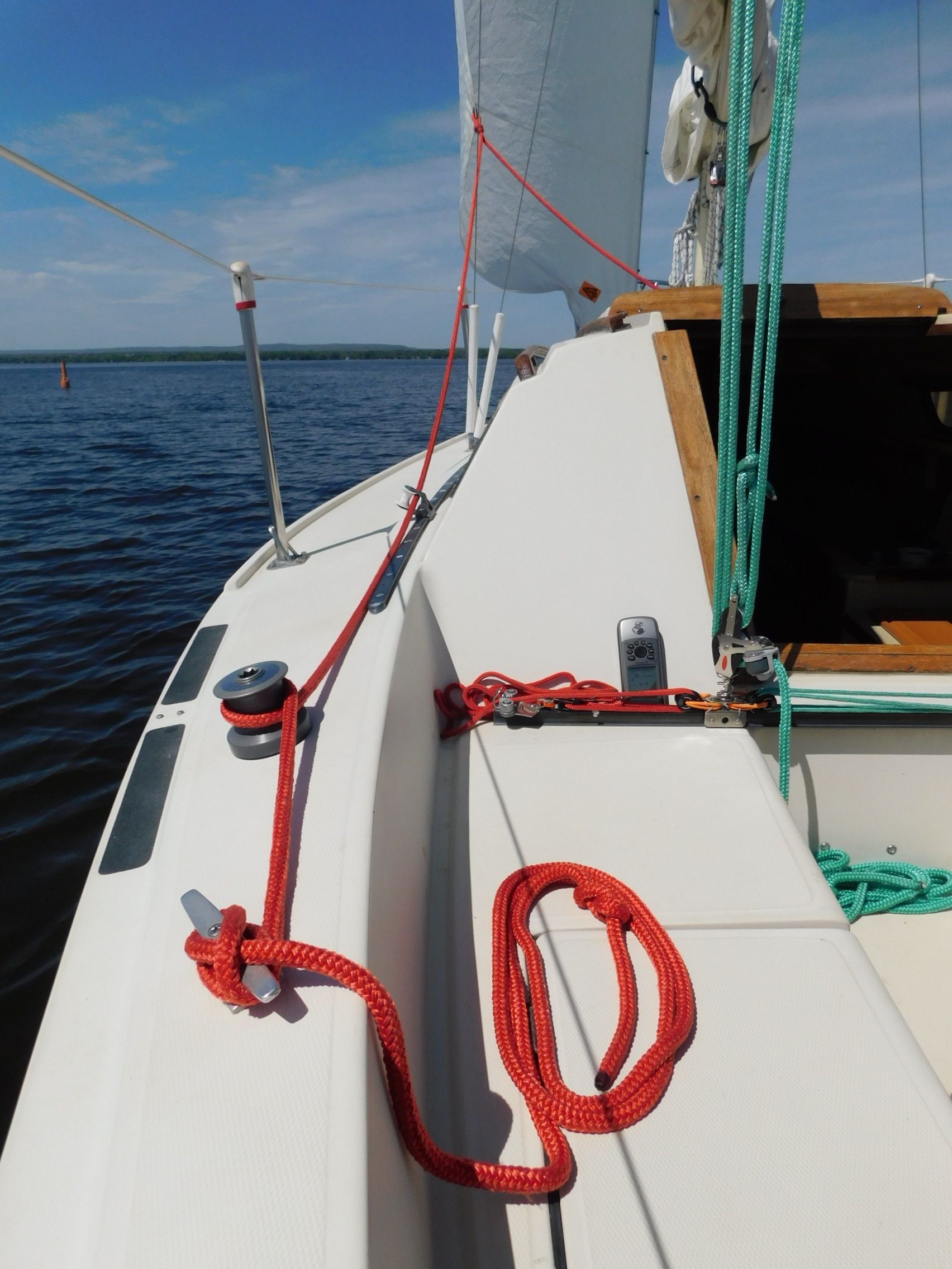 The jib sheet (large red line) on a US Yachts US 22 sailboat named Vesper.